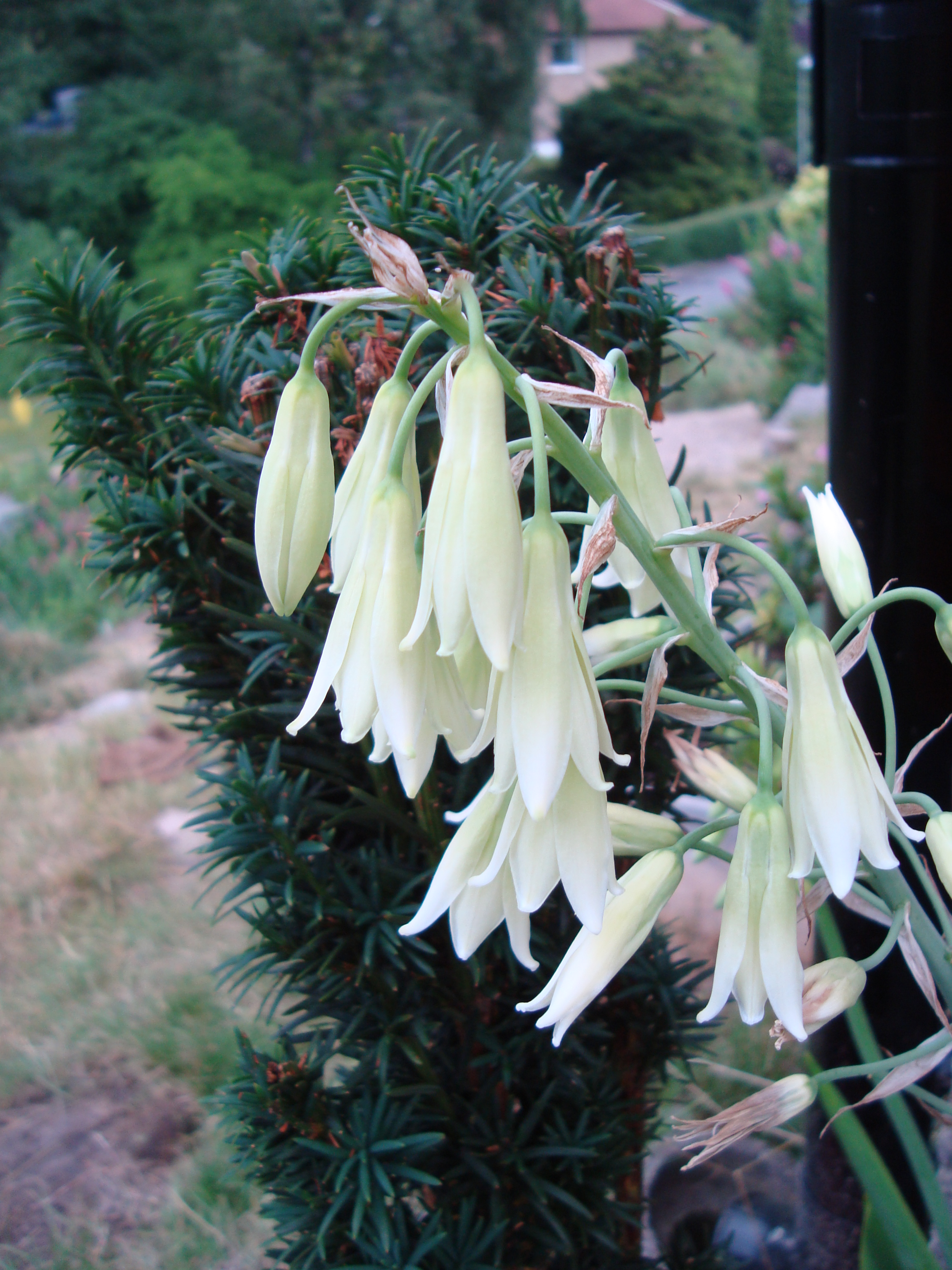 These flowers are far too white, probably O. candicans. The flowers of O. viridiflorum are green, hence the name --Michael Goodyear (talk) 20:57, 1 April 2015 (UTC)I agree. Peter coxhead (talk) 10:46, 23 July 2020 (UTC)